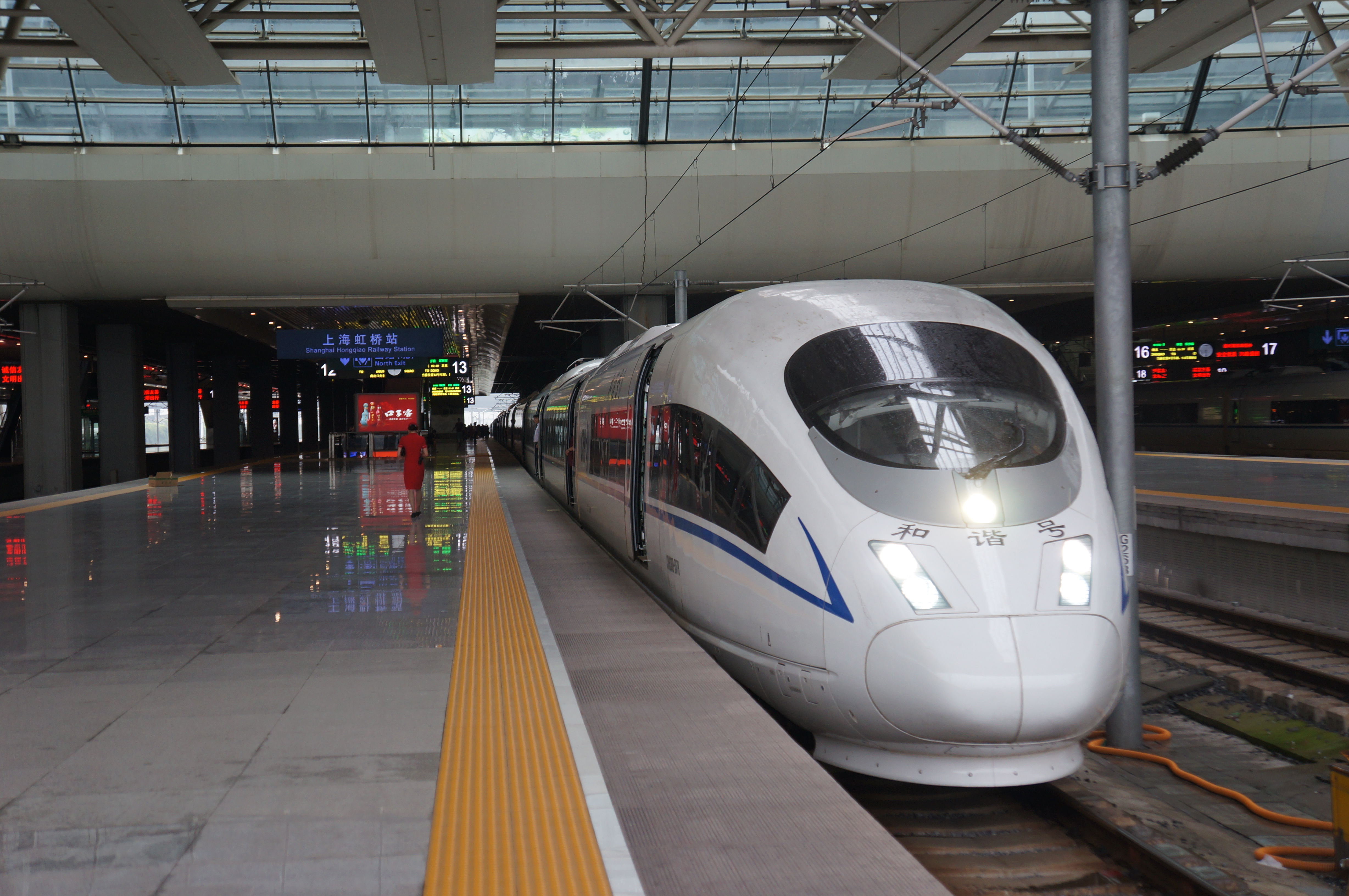 201609 G1822 (Shanghai Hongqiao to Zhengzhoudong) waits for departure at Shanghai Hongqiao Station